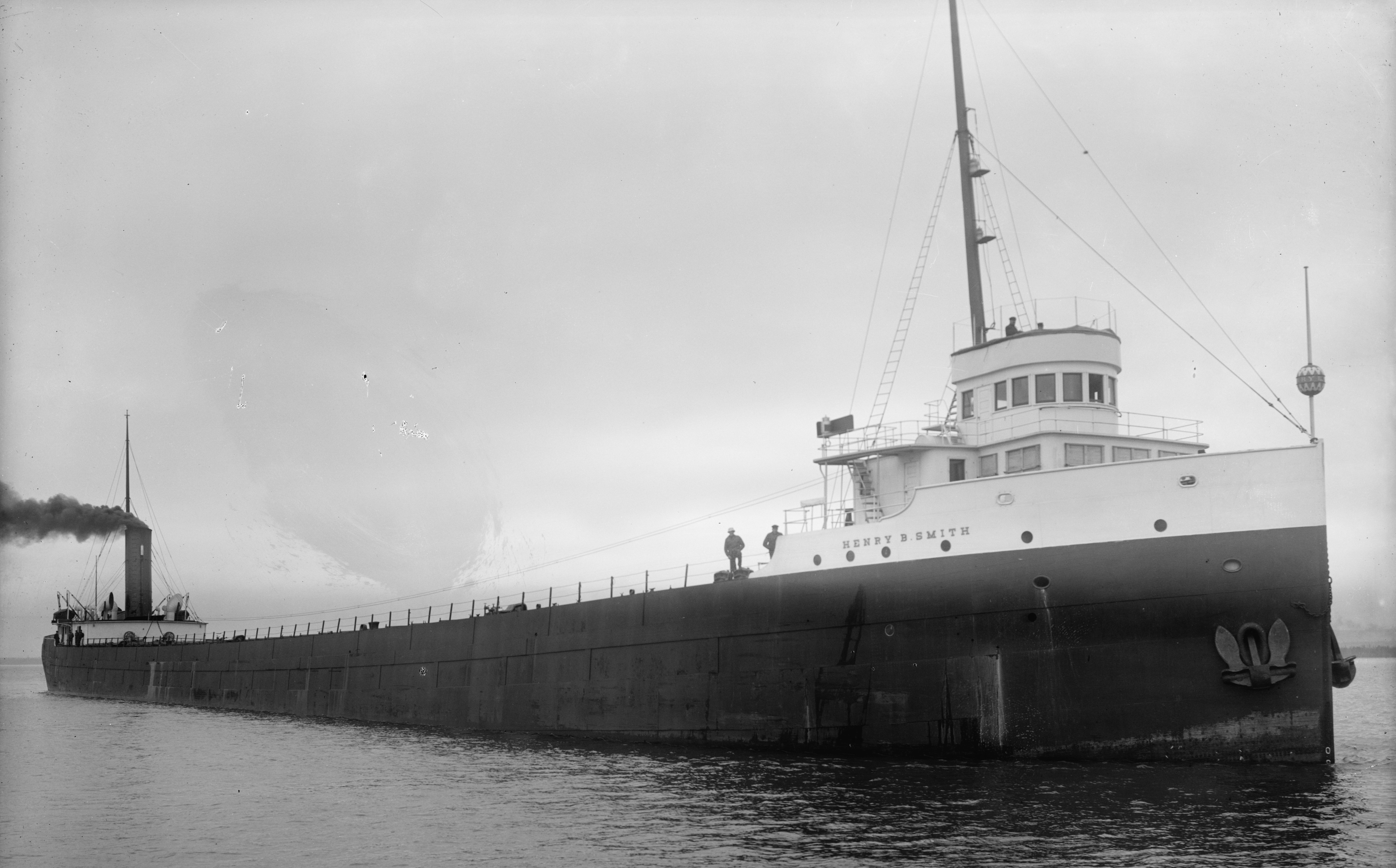 SS Henry B. Smith - ship lost in Great Lakes Storm of 1913